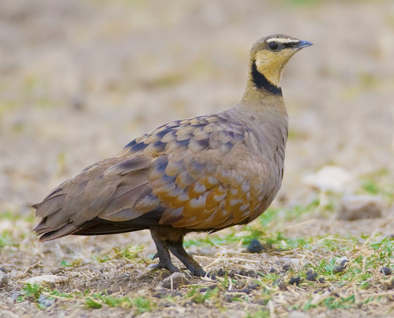 A male Yellow-throated sandgrouse from Serengeti National Park, Tanzania